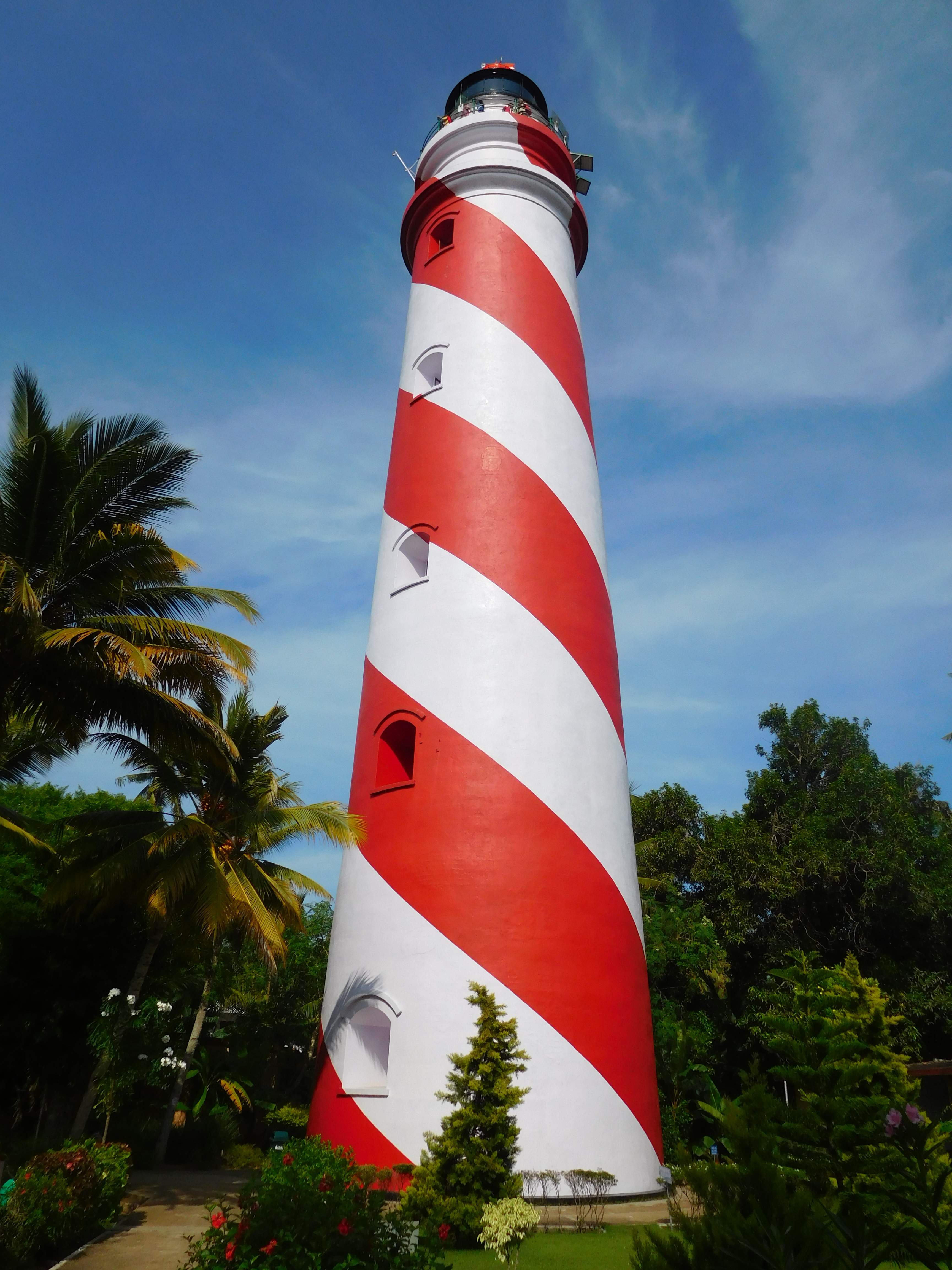 Thangasseri Lighthouse. This is the largest lighthouse in the southern state of Kerala, India